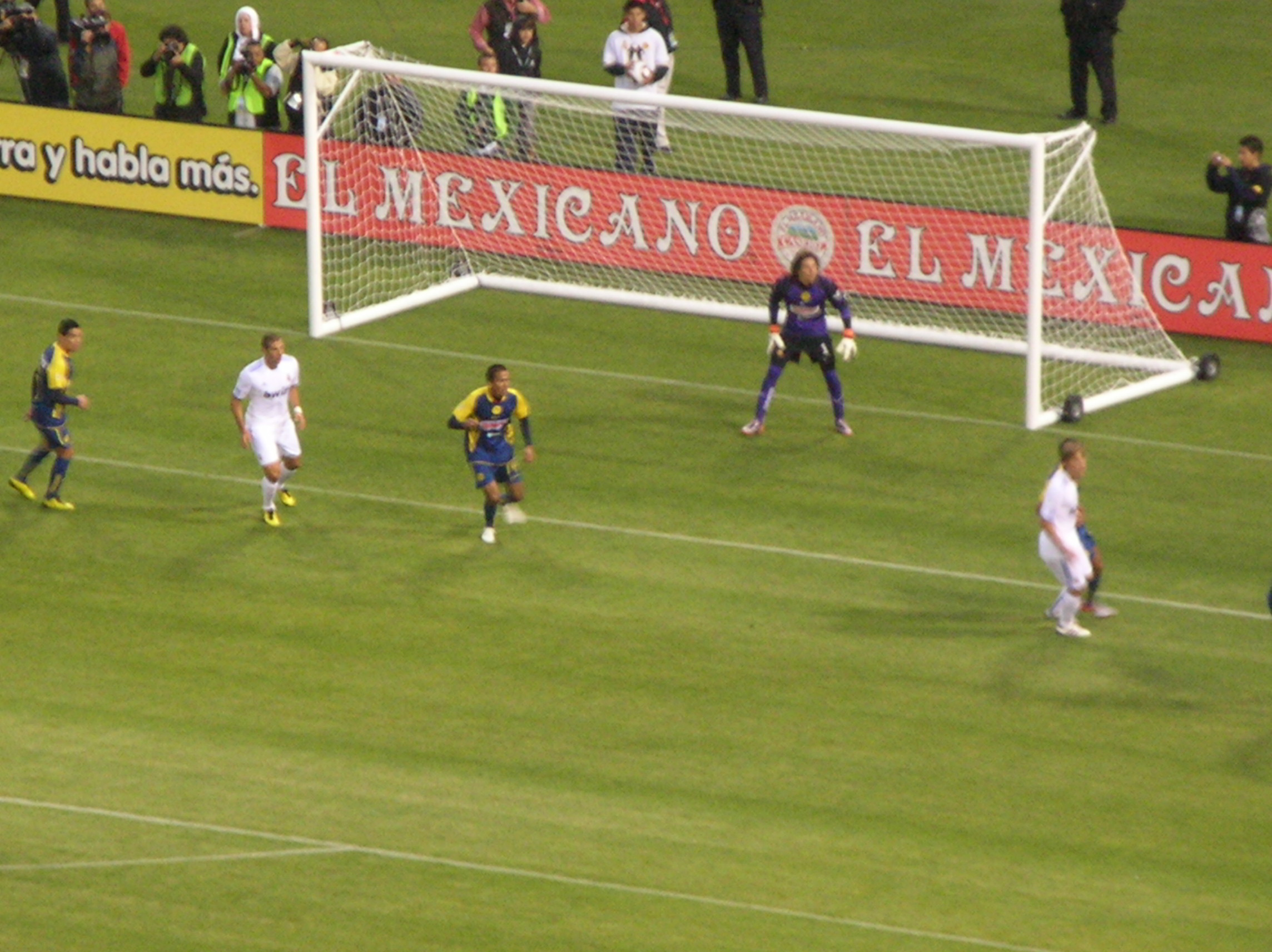 Club América (blue) and Real Madrid (white) play a friendly match at Candlestick Park in San Francisco. Real Madrid won 3-2.